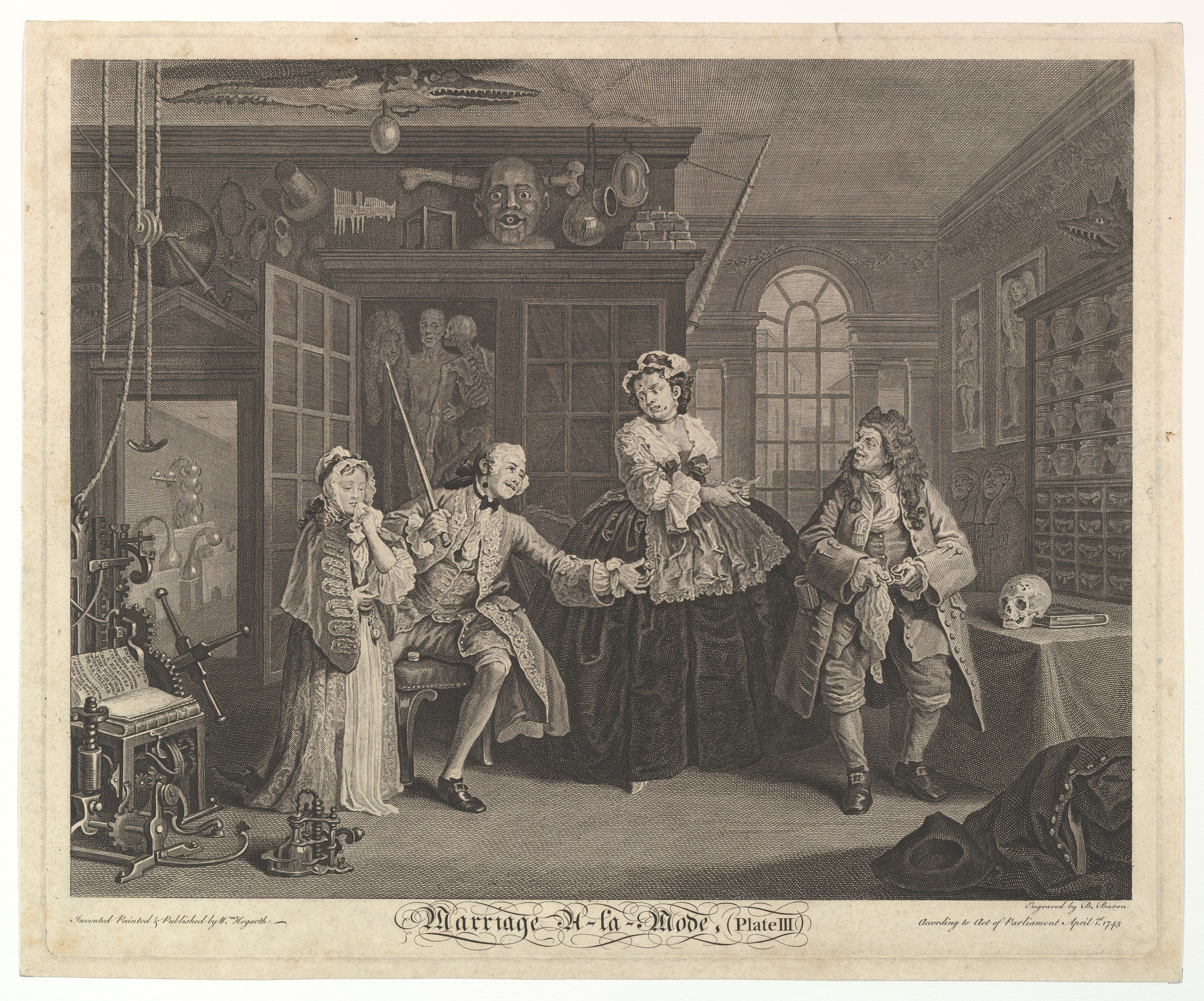 Print; Prints